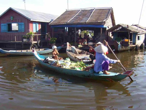 A floating Village in Cambodia with ethnic Vietnameses.